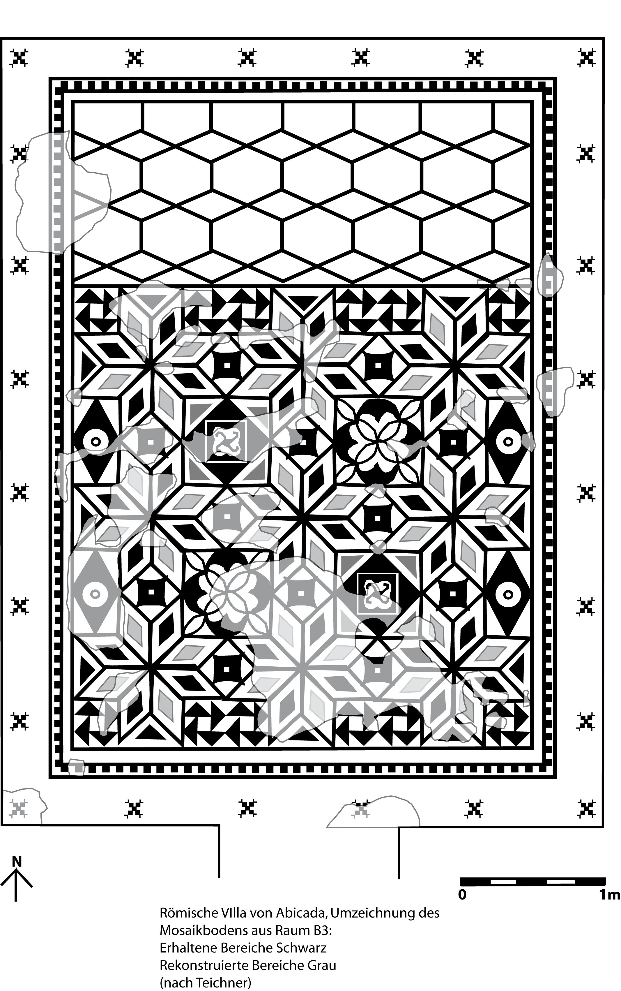 Mosaic floor in room B3 of the roman villa of Abicada